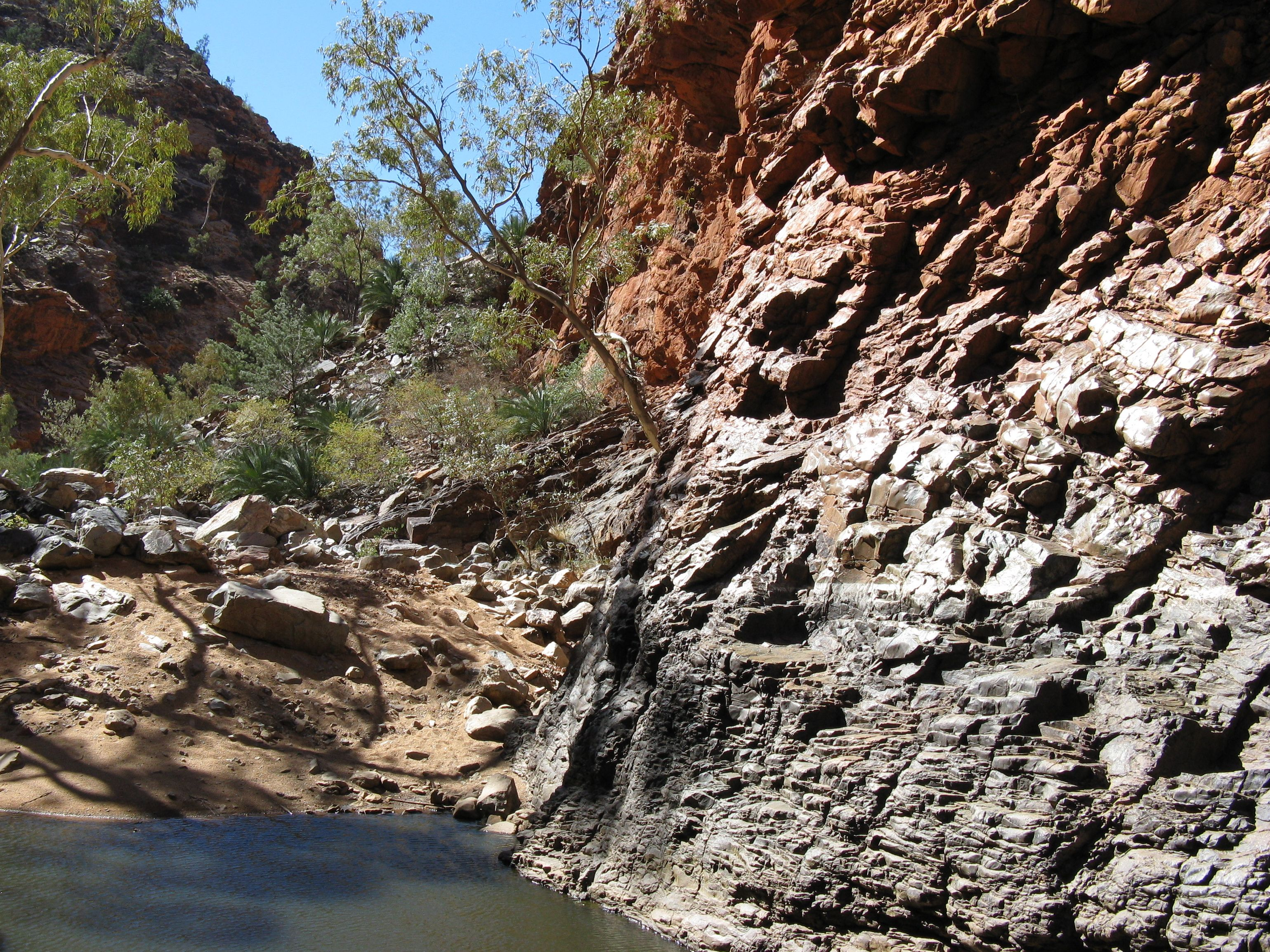 Section of waterhole at Serpentine Gorge, with cycads visible in the background.